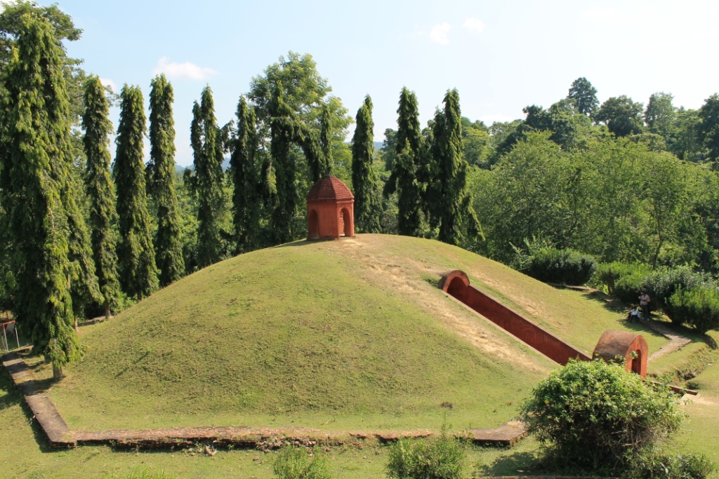 Group of four Maidams